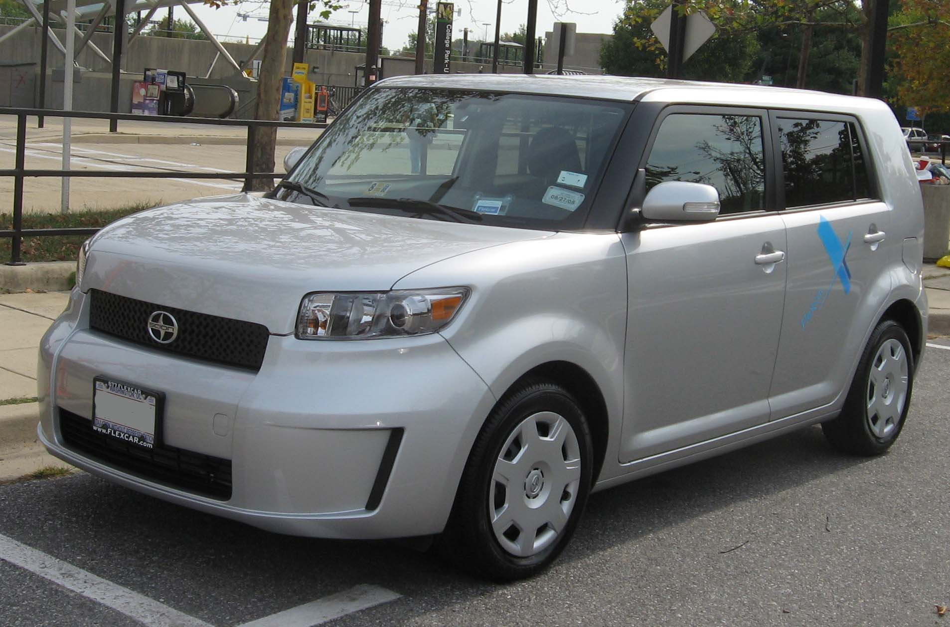 2008 Scion xB photographed in College Park, Maryland, USA.